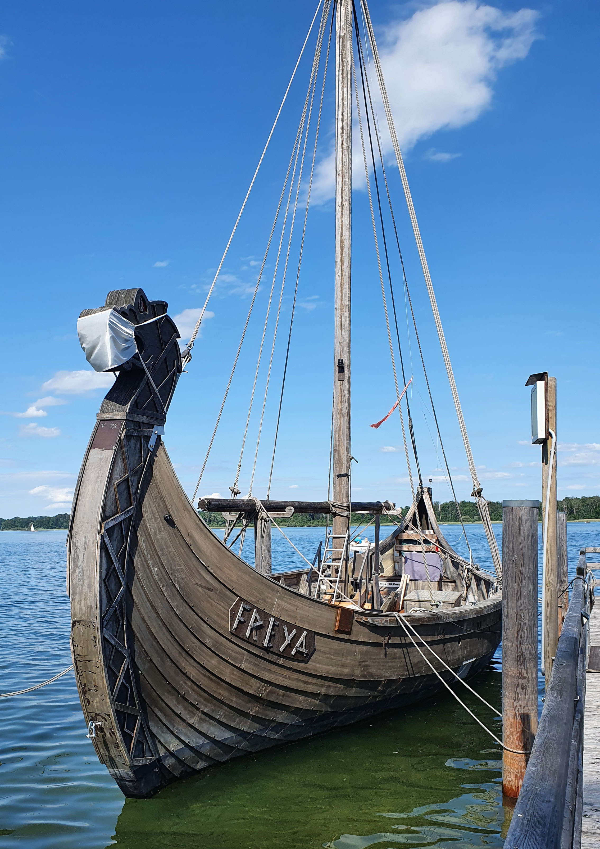 Original ship from "Wickie" motion picture